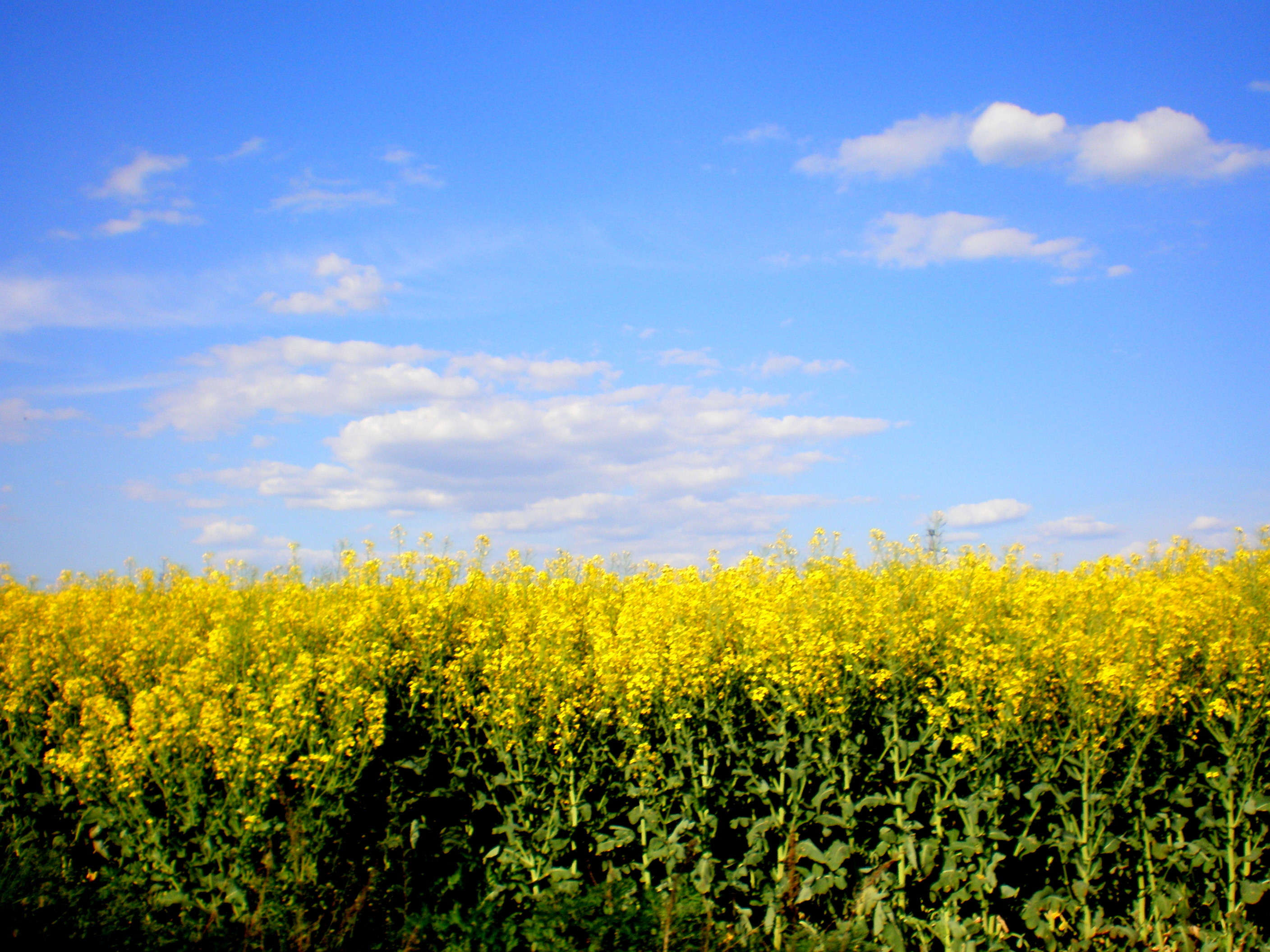 Rapeseed fieldThat photo was made in Stargard Szczeciński